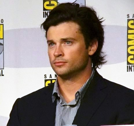 Tom Welling at Comic Con International 2010